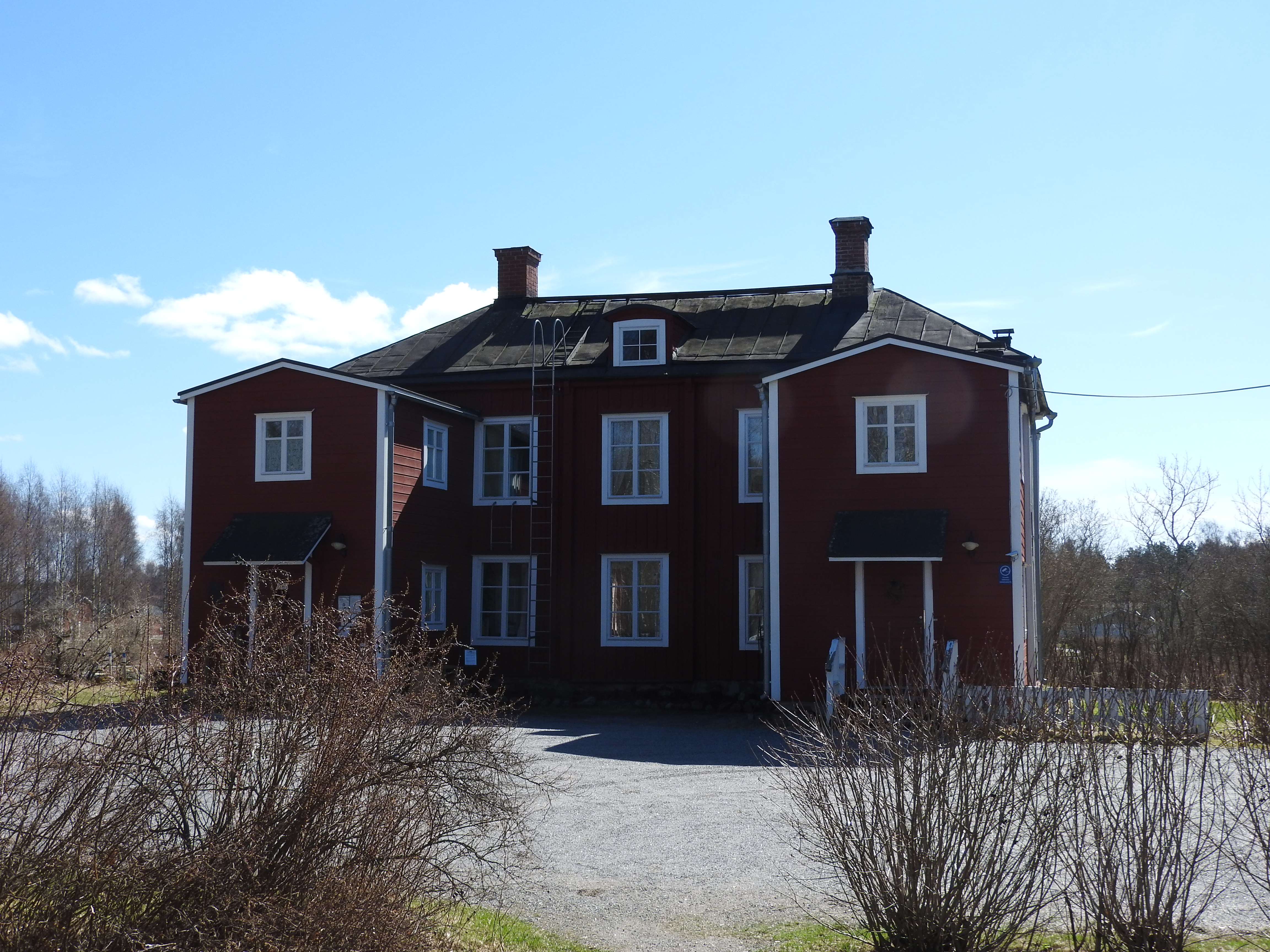 Alkula farmhouse in Old Vaasa, Finland in 2018.